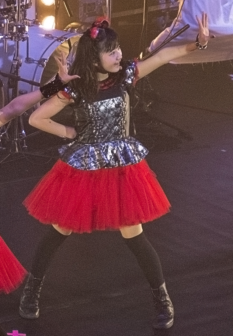 Yui Mizuno as YUIMETAL perfoming with BABYMETAL live in London, November 2014.